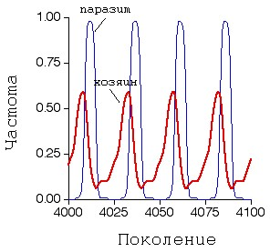 Red Queen dynamics: results from a computer simulation for host-parasite coevolution. The red line gives the frequency of one host genotype; the blue line gives the frequency of the parasite genotype that can infect it. Note that both genotypes oscillate over time, as if they were "running" in circles. The model assumes that hosts have self-nonself recognition systems, which can detect foreign organisms. The model also assumes that hosts and parasites both reproduce sexually.